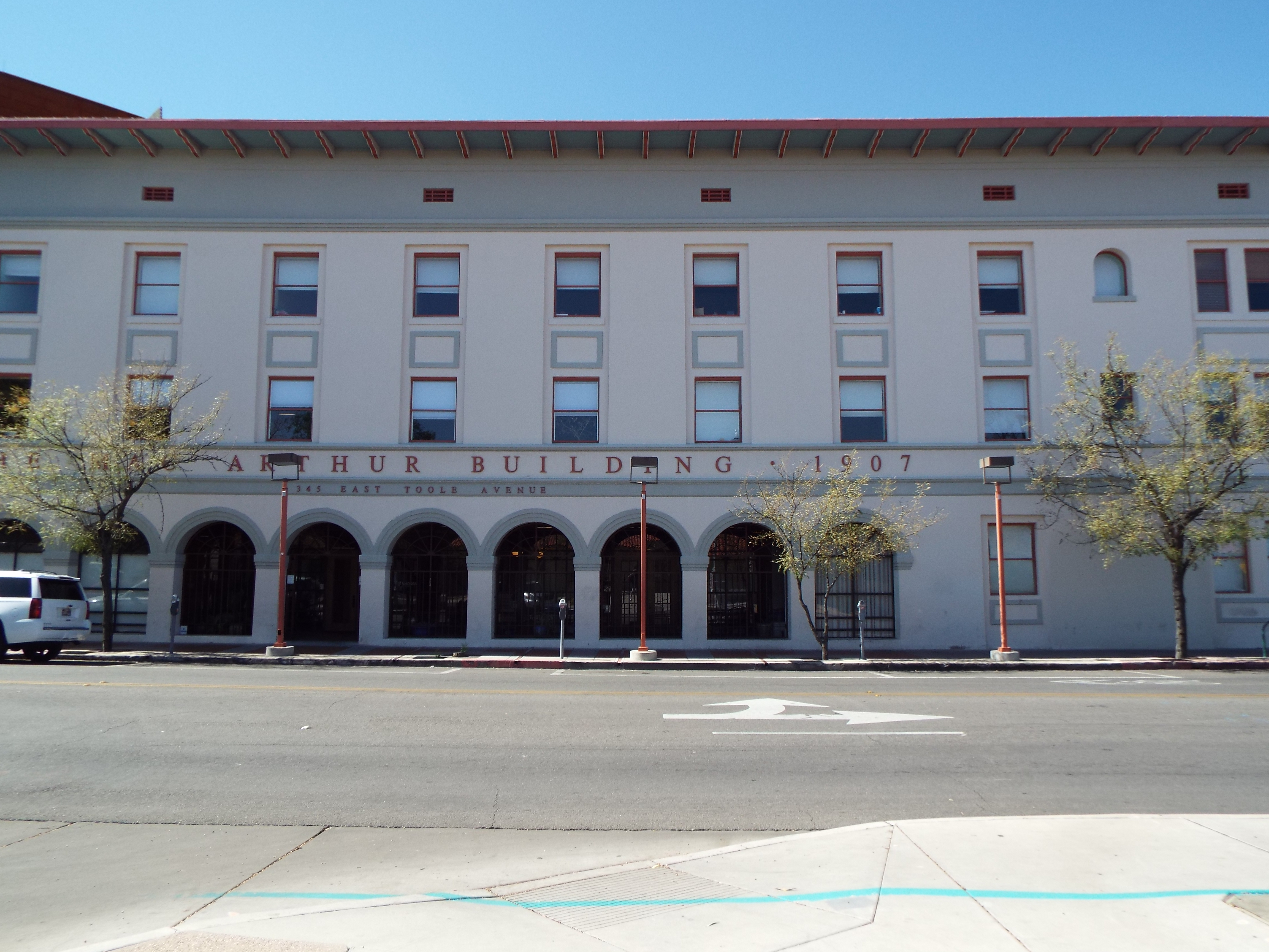 The MacArthur Building was built in 1907 and located at 345 E. Toole Avenue, Tucson Arizona. The three story building was originally named the Hotel Heidel. In 1944, it was renamed MacArthur Hotel.